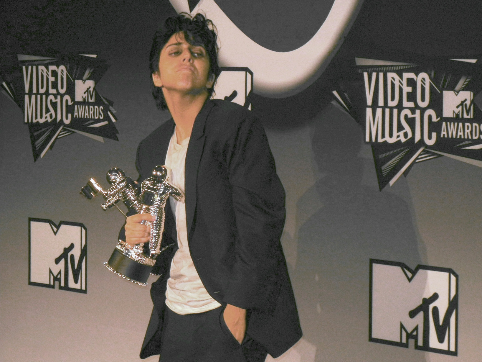 Lady Gaga at MTV Video Music Awards 2011.